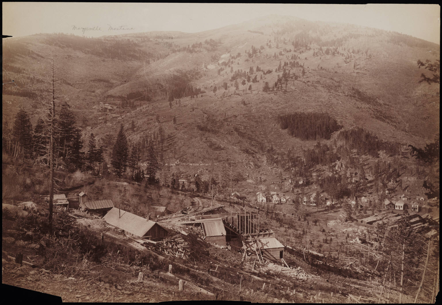 Author/Creator: Watkins, Carleton E., 1829-1916. Date: 1884, 1885, or 1890. Part of: Mammoth plate photographs of the North American West Physical Description: 1 photographic print b&w, mammoth plates approx. 38.5 x 54 cm. Folder or box number: Folder 14 Subjects: Landscape photography--West (U.S.) West (U.S.) Montana. Genre/Form: Photographs Photographic prints Albumen prints Cite as: Yale Collection of Western Americana, Beinecke Rare Book and Manuscript Library Repository: Beinecke Rare Book & Manuscript Library, Yale University Bibliographic Record Number: 2016788 Call Number: WA Photos Folio 1 View our Record: Permalink